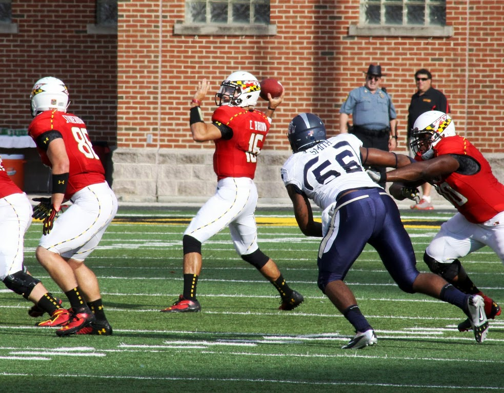 Maryland quarterback C.J. Brown passes during the Terps 47-10 win over Old Dominion on September 7, 2013.